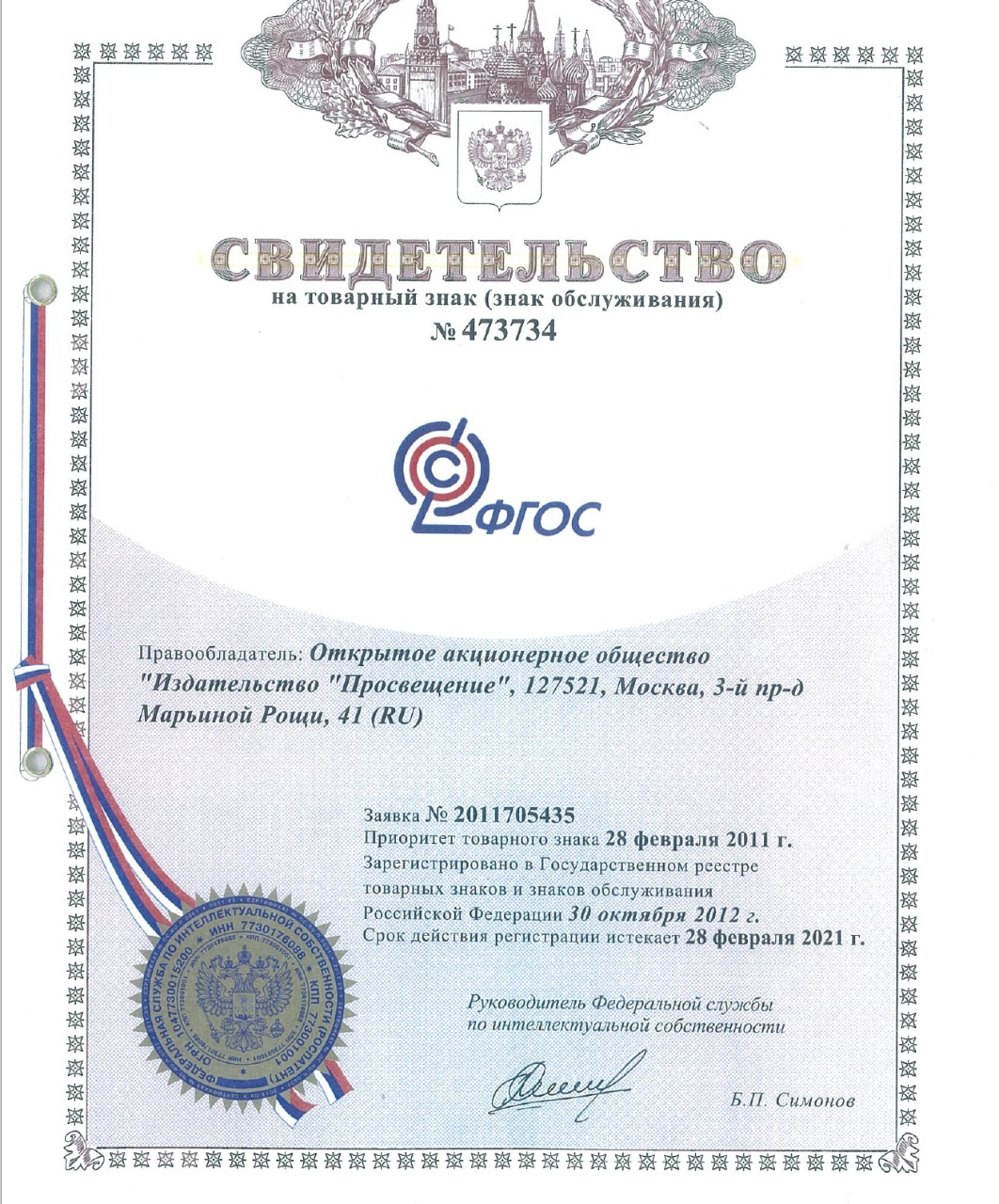 Certificate of trademark Prosveshenie